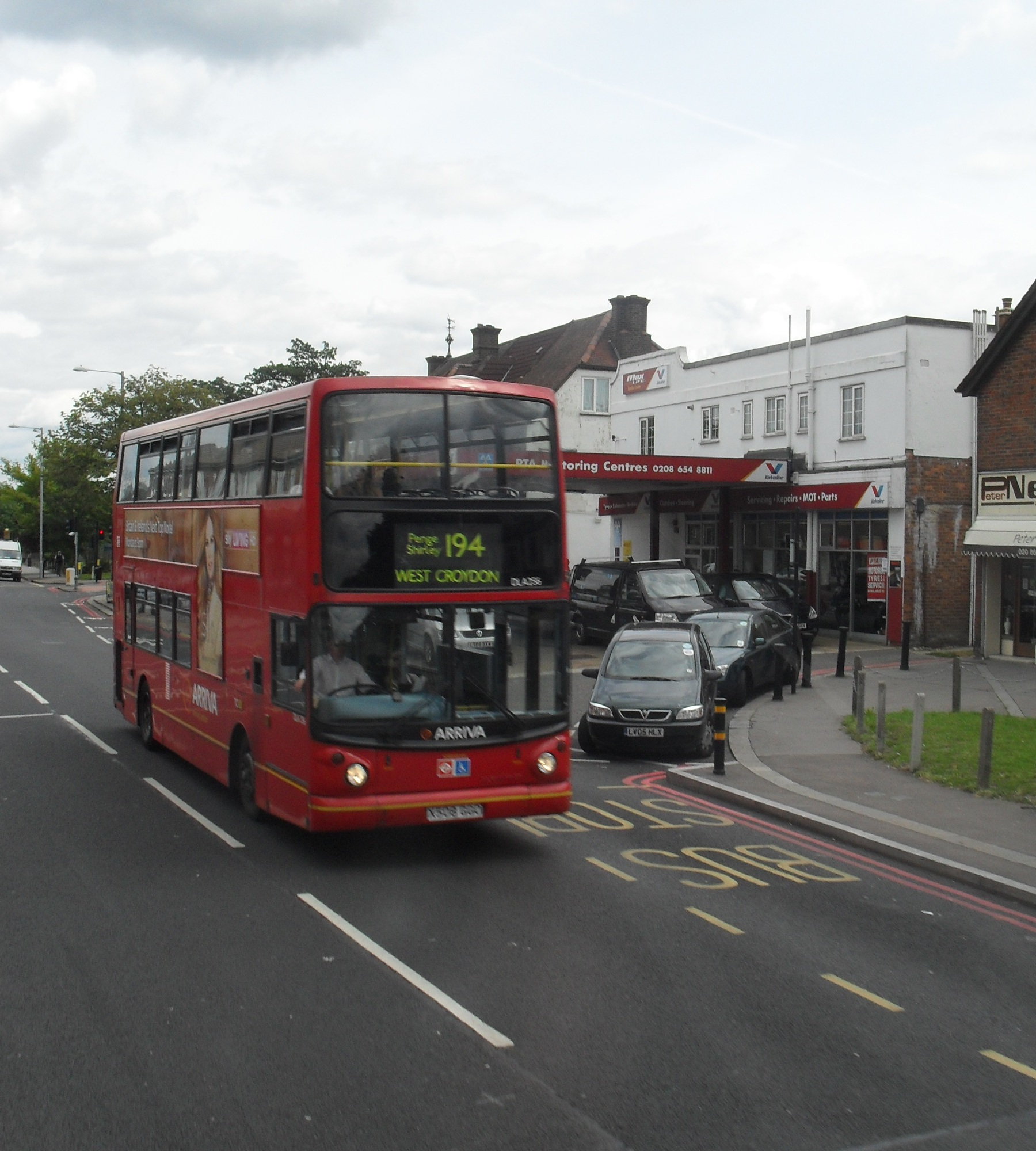 Photographed on 23rd July 2011.